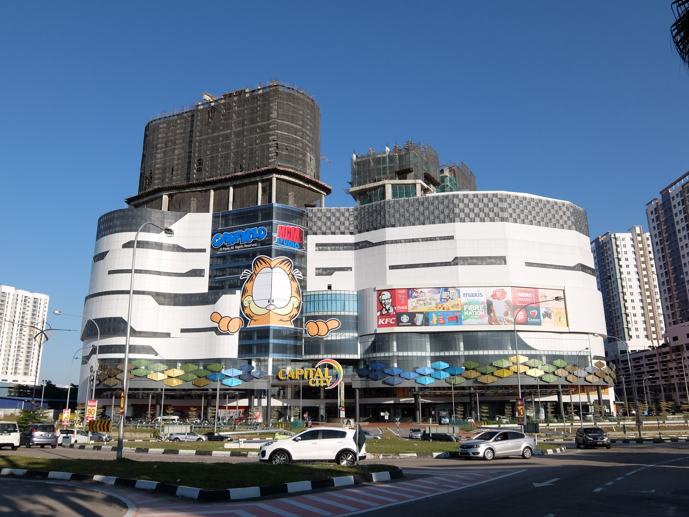 Capital City Mall, Tampoi, Johor Bahru, Johor, Malaysia